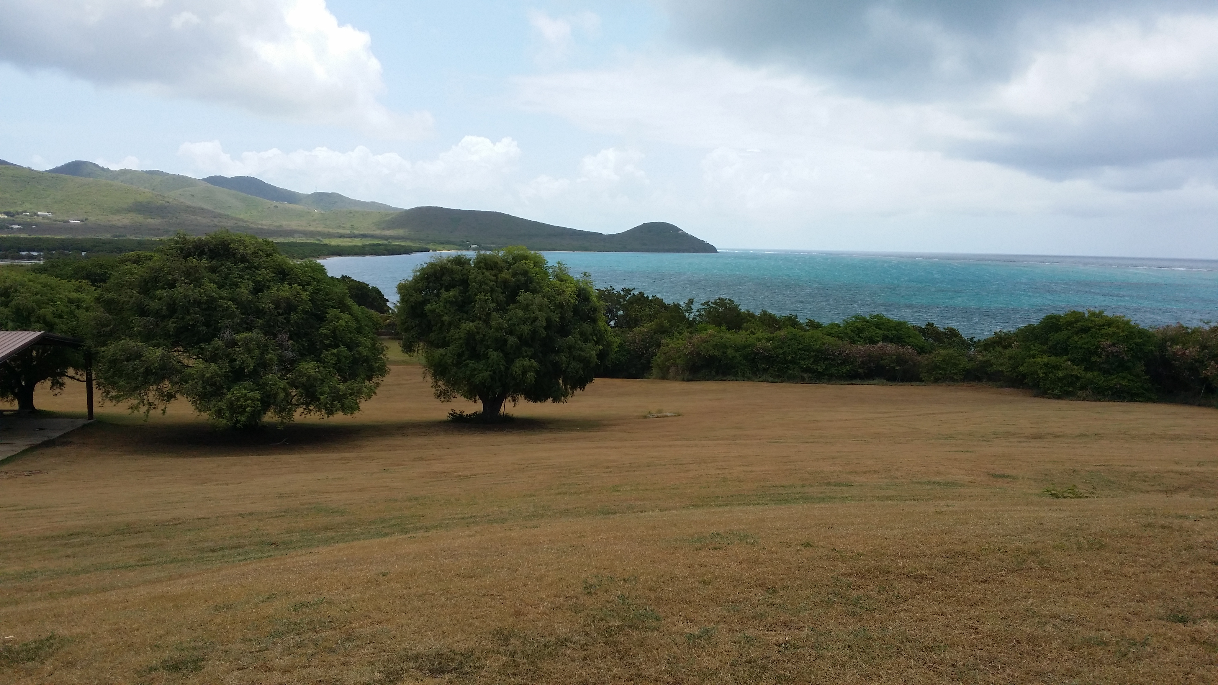 View of the Howard Wall Scout Camp, Fareham, Saint Croix, USVI